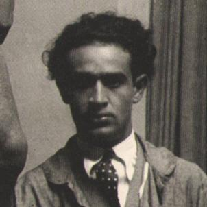 Lo scultore Silvestre Cuffaro